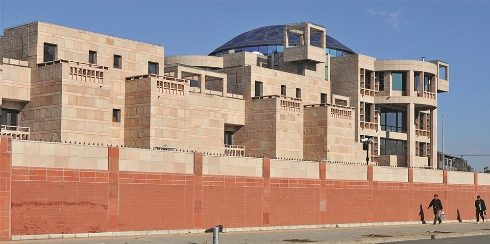 View from a road